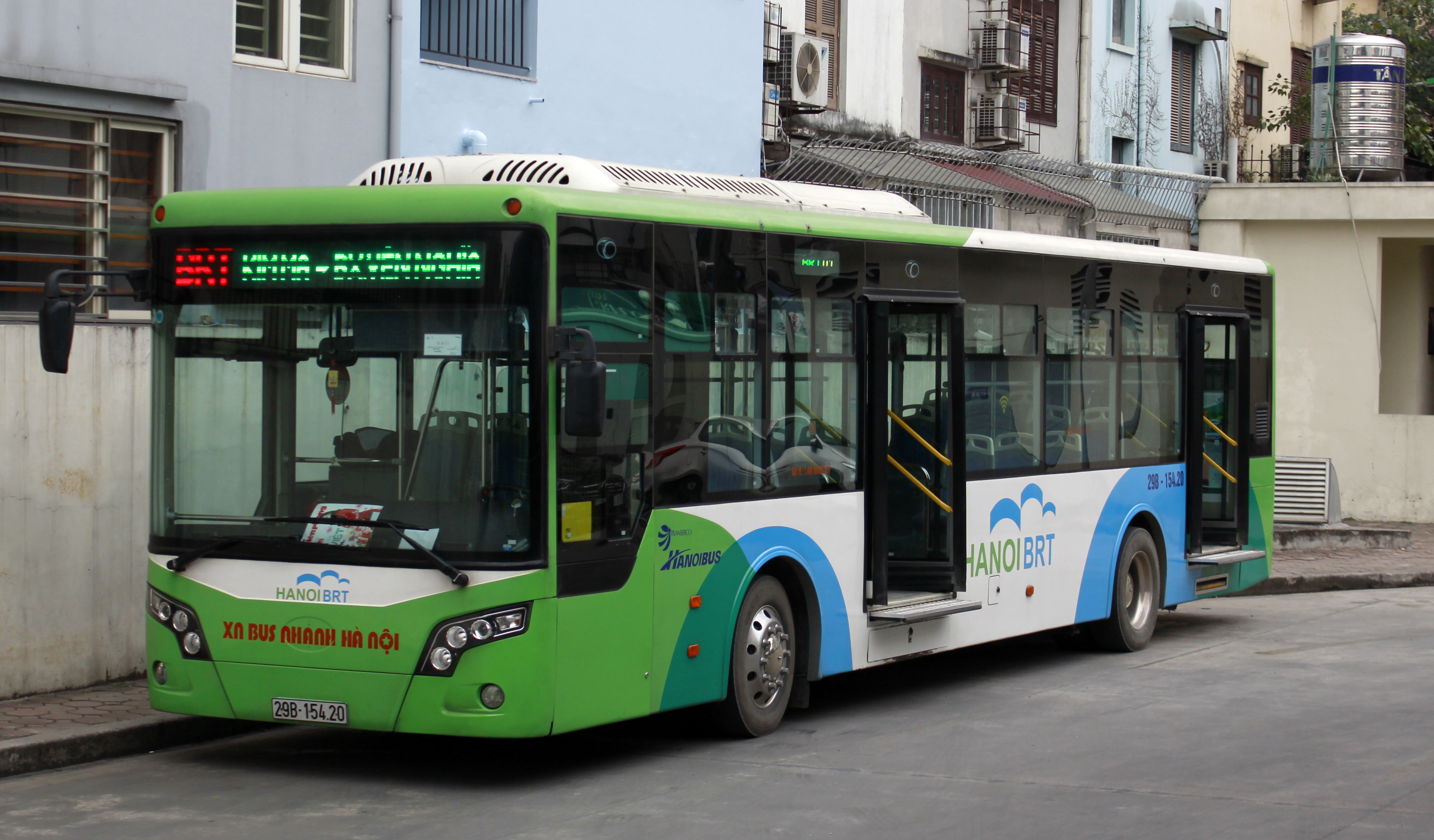 Hanoi BRT bus at Kim Ma Terminus